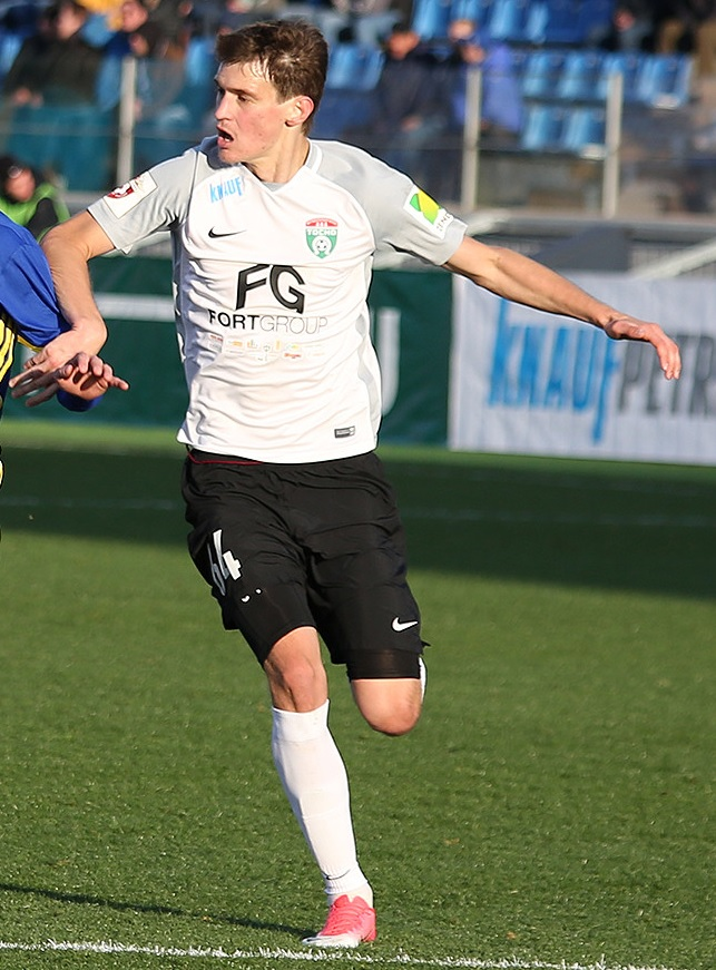 Denis Kutin with FC Tosno in a game against FC Rostov.